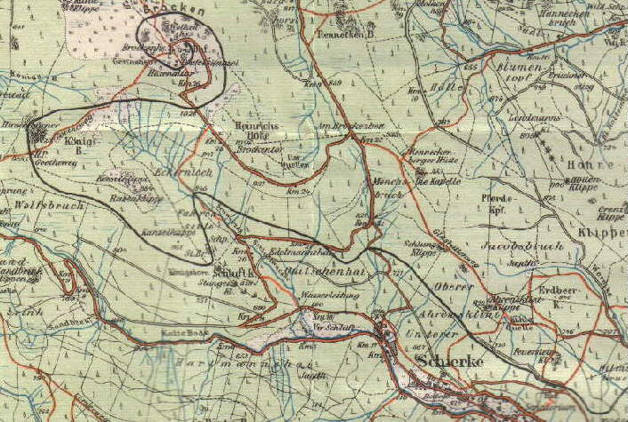 Map of the Brockenbahn in scale 1:50,000 (Original) of year 1912.